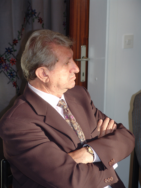 Risto Jacev